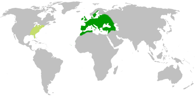 Distribution of Ballota nigra in the world - information from Ballota nigra page on en.wiki and its external links.